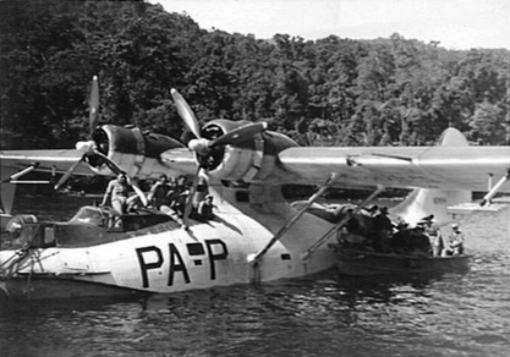 Australian troops of 37/52nd infantry battalion loading their gear from a launch into a Royal New Zealand Air Force Boeing PB2B-1 Catalina aircraft from No. 6 Squadron at Nantambu, New Britain, 22 August 1945. The battalion was airlifted back to the RNZAF base at Jacquinot Bay.